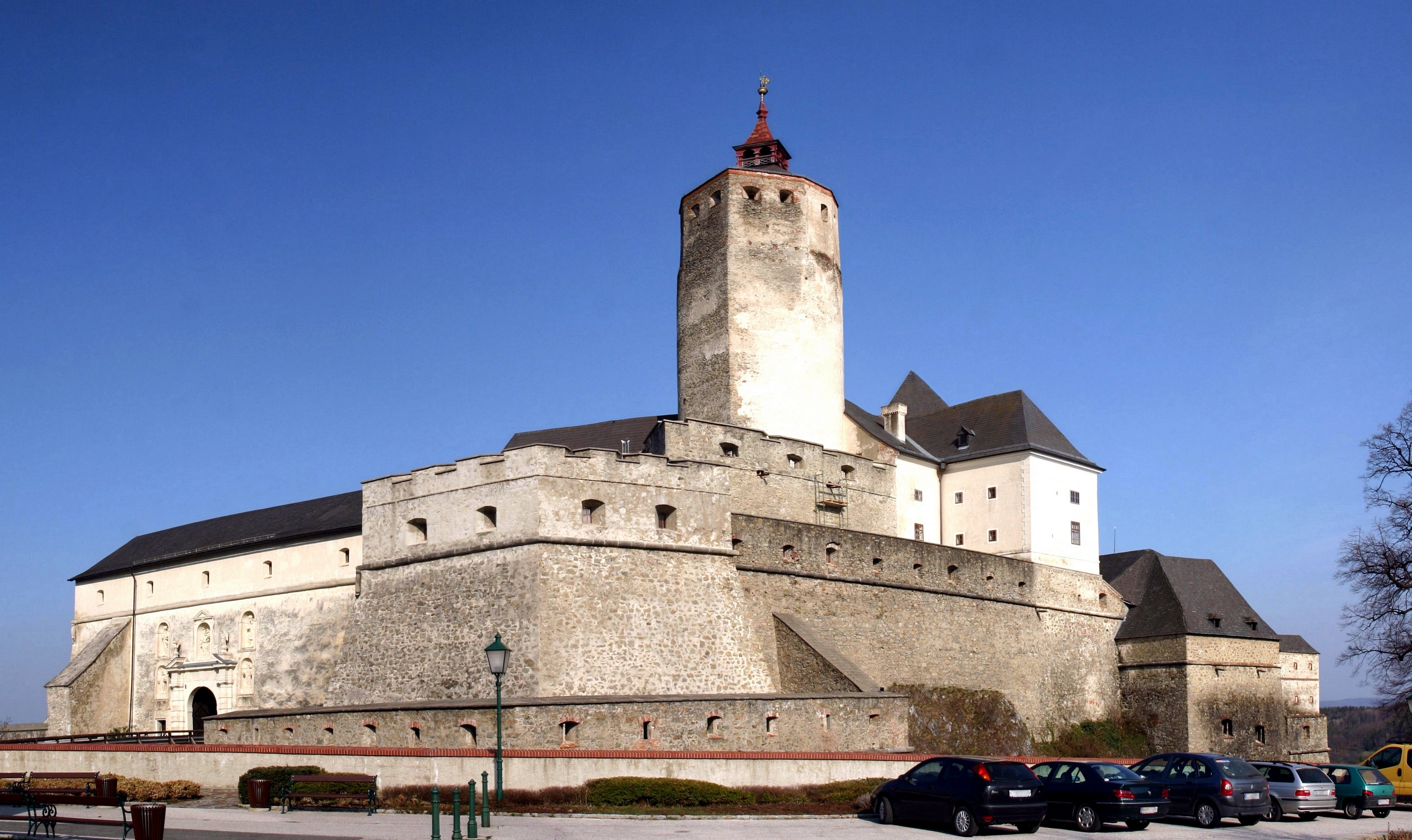 Forchtenstein Castle - Forchtenstein Object location47° 42′ 35.05″ N, 16° 19′ 54.08″ E